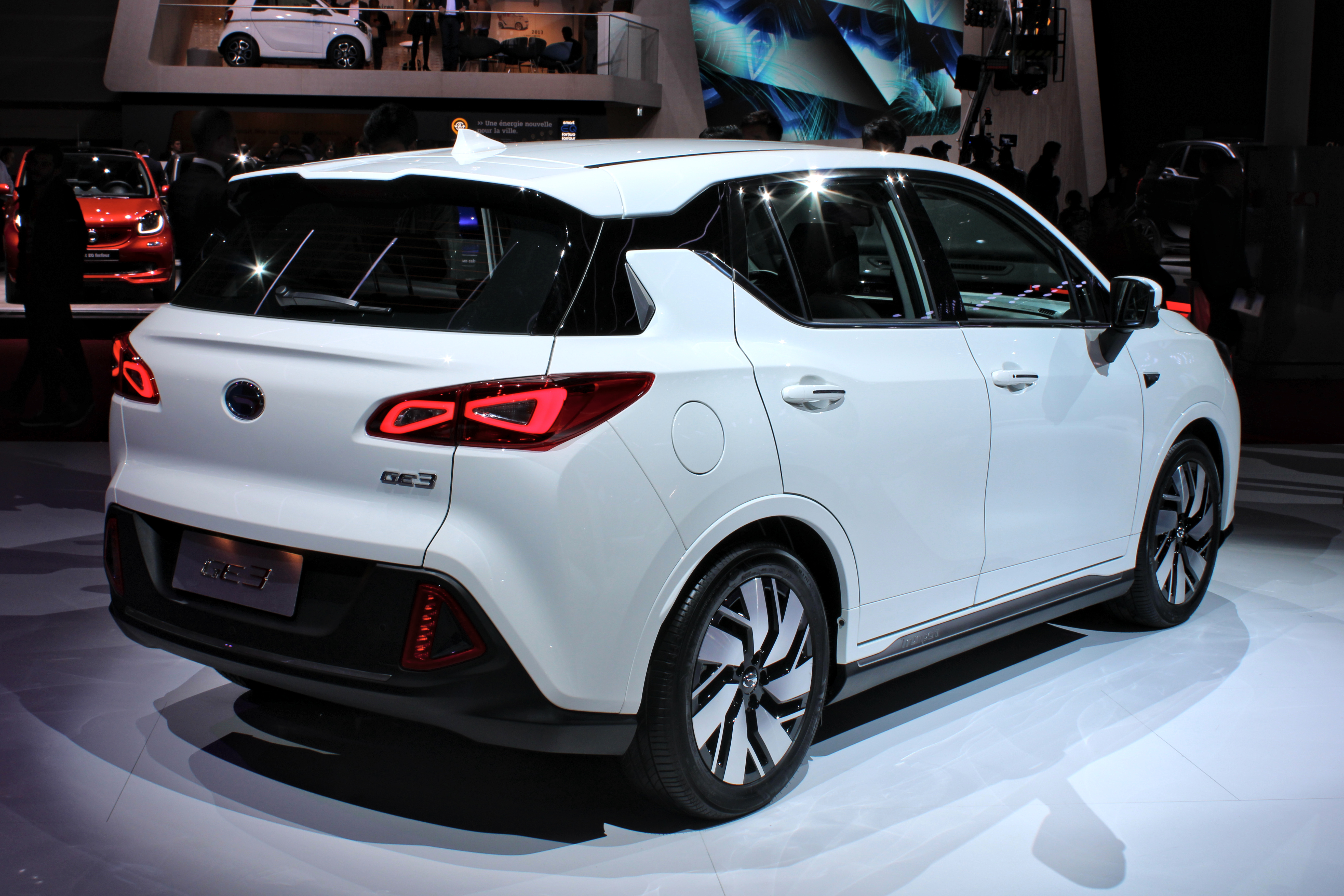 GAC Motor GE3 at Paris Motor Show 2018